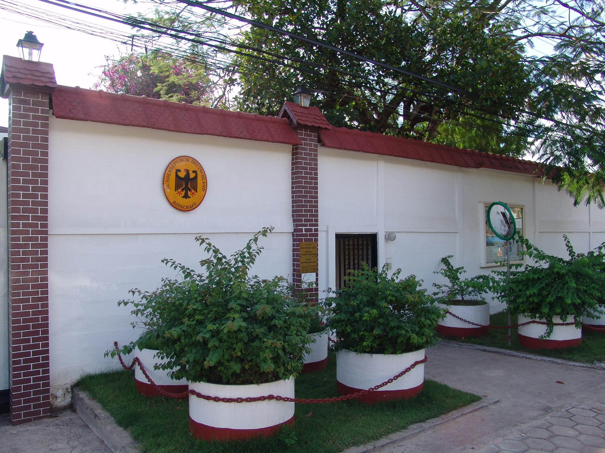 German Embassy at République Démocratique Populaire Lao